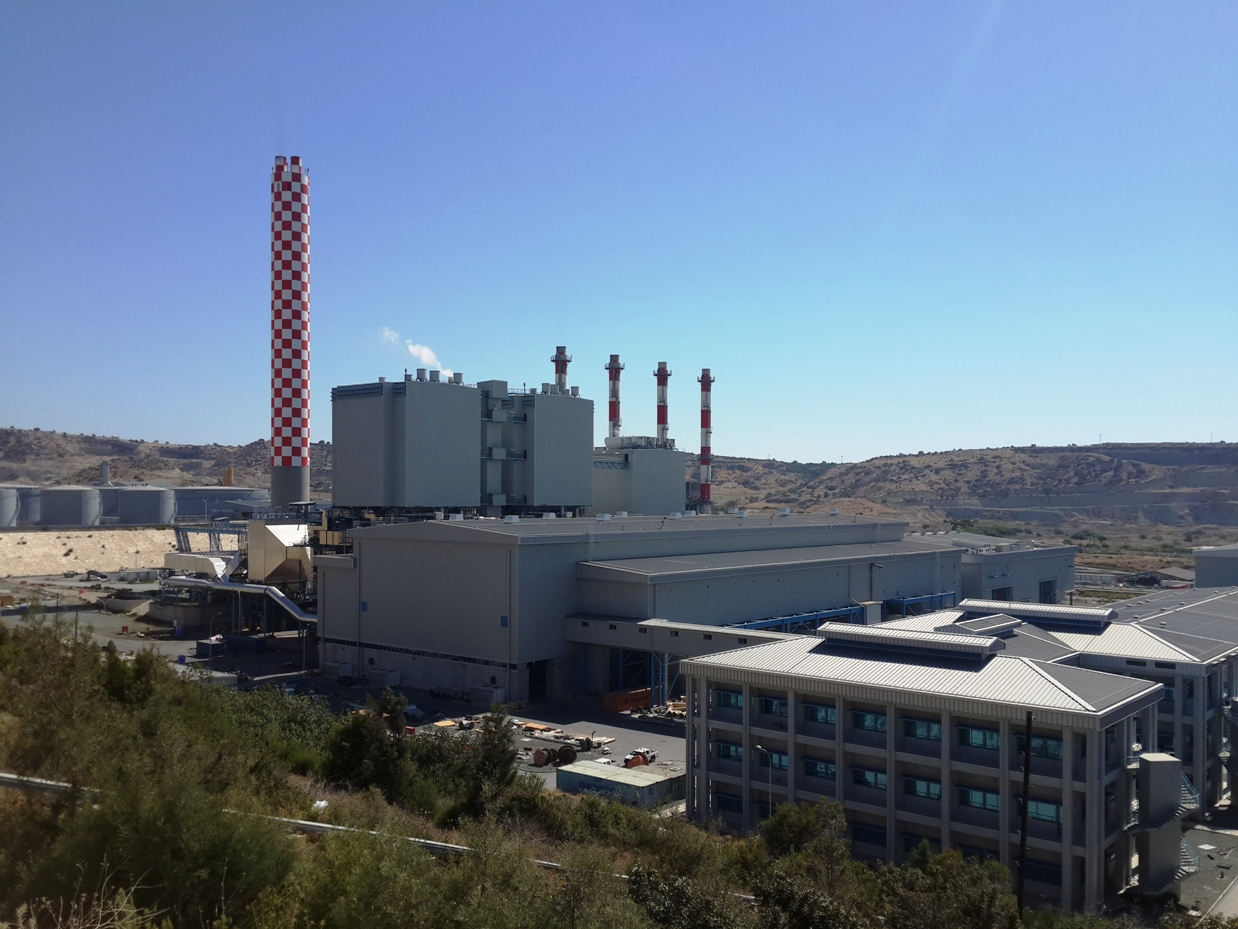 Vasikikos power station after rehabilitation from the damage in consequence of the Evangelos Florakis Naval Base explosion